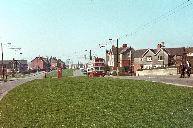 British Trolleybuses - Cardiff The busiest trolleybus route in Cardiff served the large Ely housing estate. The services were provided in the form of a loop running out via Cowbridge Road and returning via Grand Avenue, or vice versa. The main service operated along Macdonald Road, which can be seen diverging to the left from Grand Avenue at this point. The trolleybus in the picture has come from Green Farm Road. This was an extra loop which was served in one direction only by about one in three of the journeys operating clockwise. This scene appears to have changed very little in 40 years, although there are now some trees in the reservation of Grand Avenue. For a slide show of British Trolleybuses in the late 60s